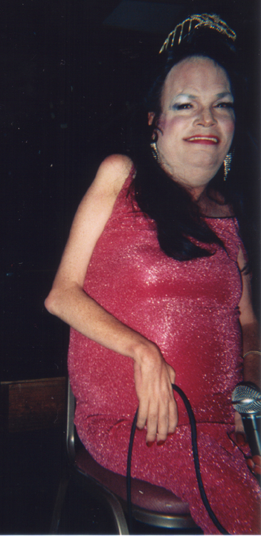 At the The Goddess Bunny's Gong Show at Mr. T's Bar in Highland Park, CA, February 4, 2007.Goddess Bunny